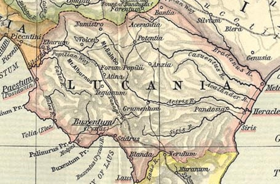 Map of Lucania, cropped from old public domain map of Italy, from the Perry-Castañeda Library Map Collection, Historical Atlas by William R. Shepherd north, south